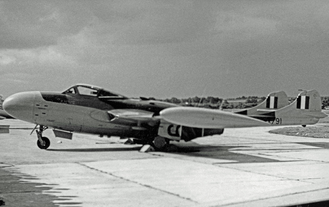 DH.112 Venom NF.3 WX791 exhibited at the 1954 Farnborough Air Show